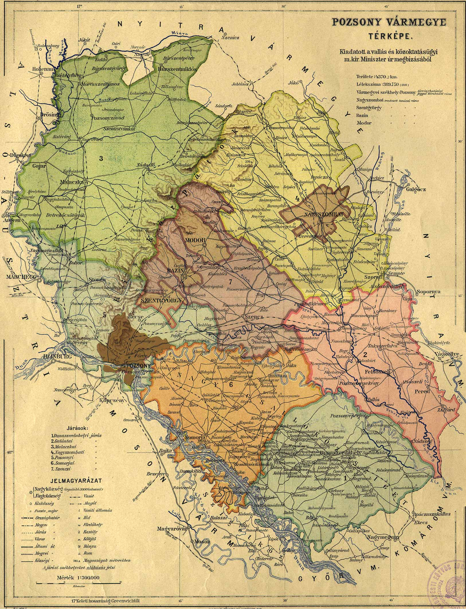 Administrative map of the county of Pozsony in the Kingdom of Hungary